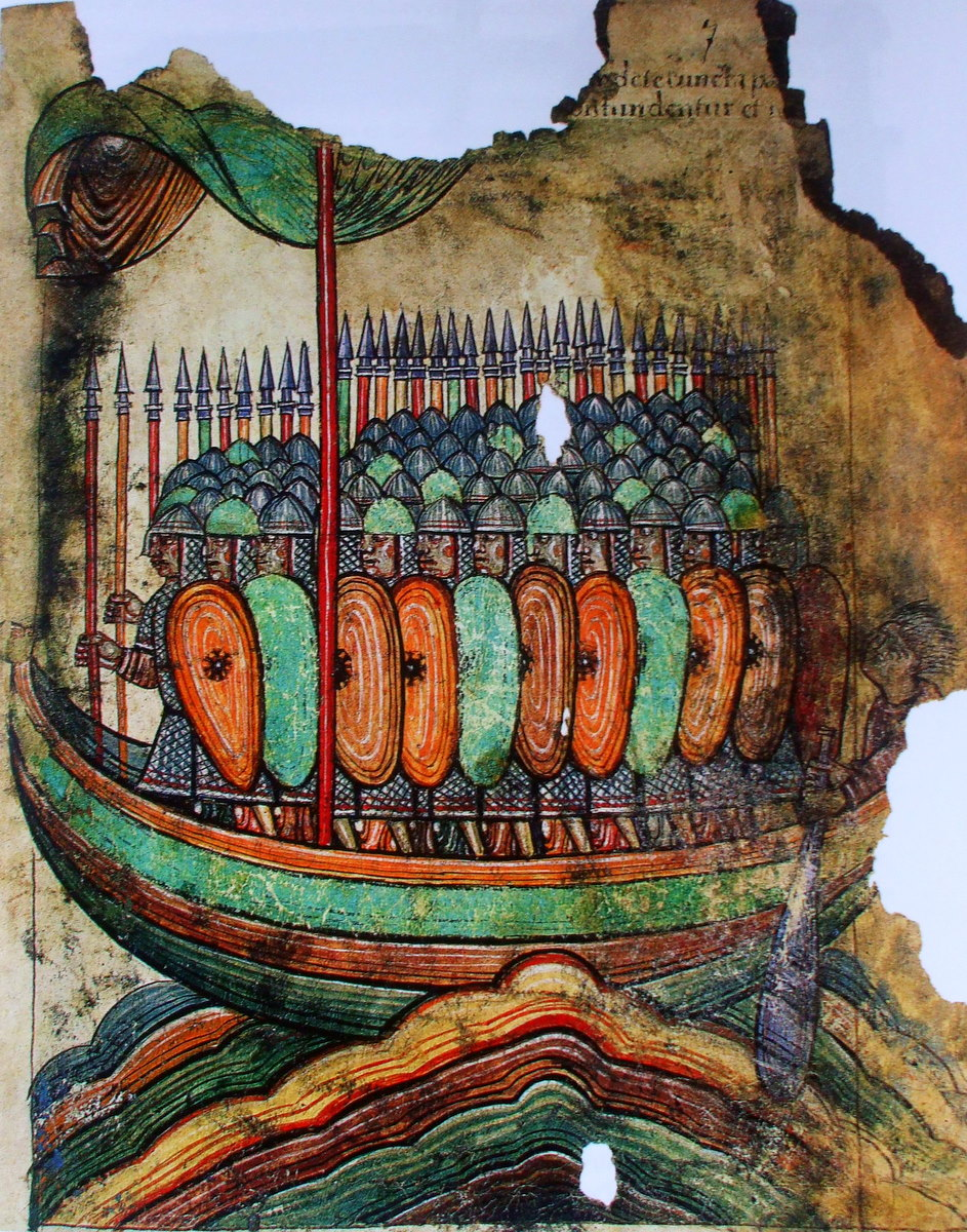 Viking attack